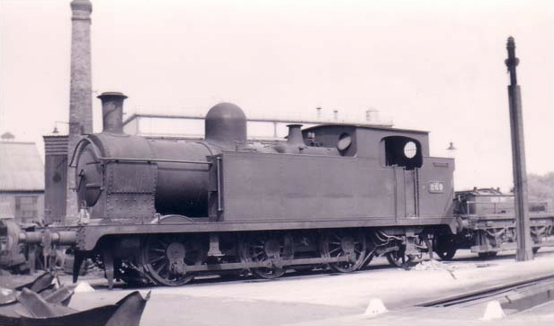 Great Western Railway Steam Tank Engine No: 269. Barry Railway Class B1 0-6-2T locomotive, absorbed by the Great Western in 1922. It is likely that the Barry Railway No. for GW 269 was No. 113. Built by Sharp Stewart's 1900. Photographed at Swindon 1950.